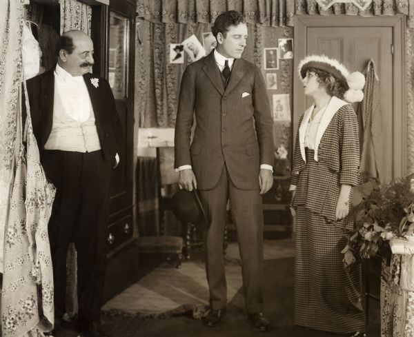 In this scene still for the 1914 silent drama film Behind the Scenes are, from left to right, Russell Bassett playing the theatrical producer Joe Canby, James Kirkwood playing Steve Hunter, and Mary Pickford playing Hunter's wife, the actress Dolly Lane.